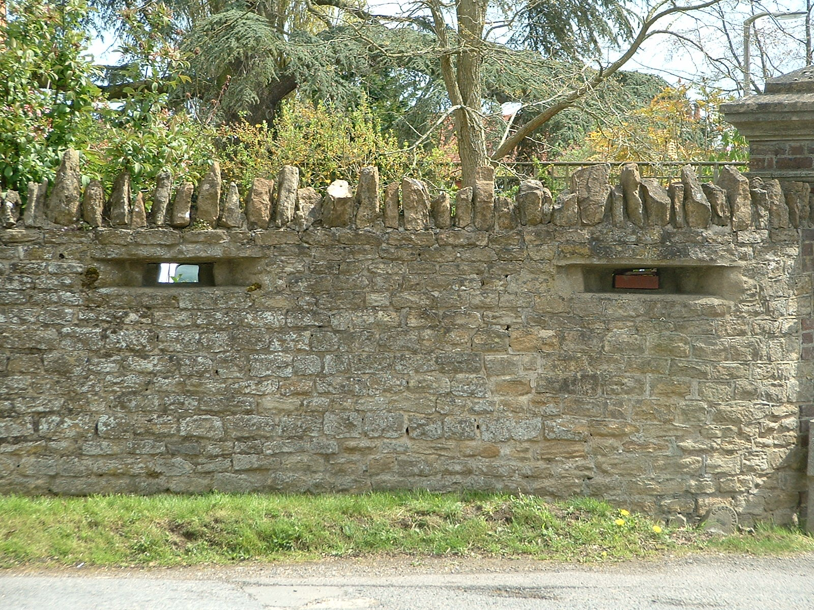 Loopholed wall at Elstead, just across the road from the Woolpack PH. On roadside, accessable. OS reference SU907437 Photographed on 01-May-06.